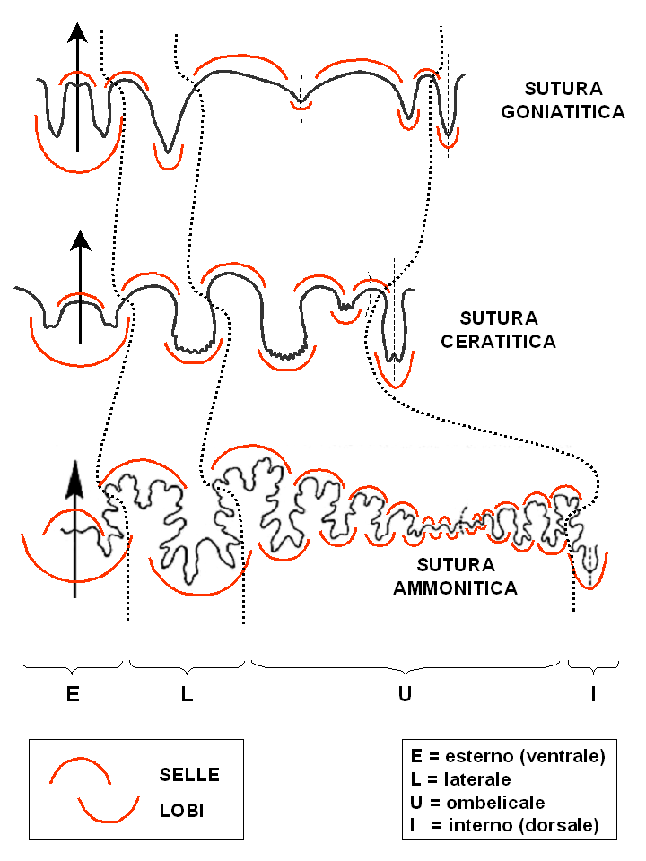 Terminology for the description of ammonite sutural patterns. After Wedekind (1913). Text in italian.